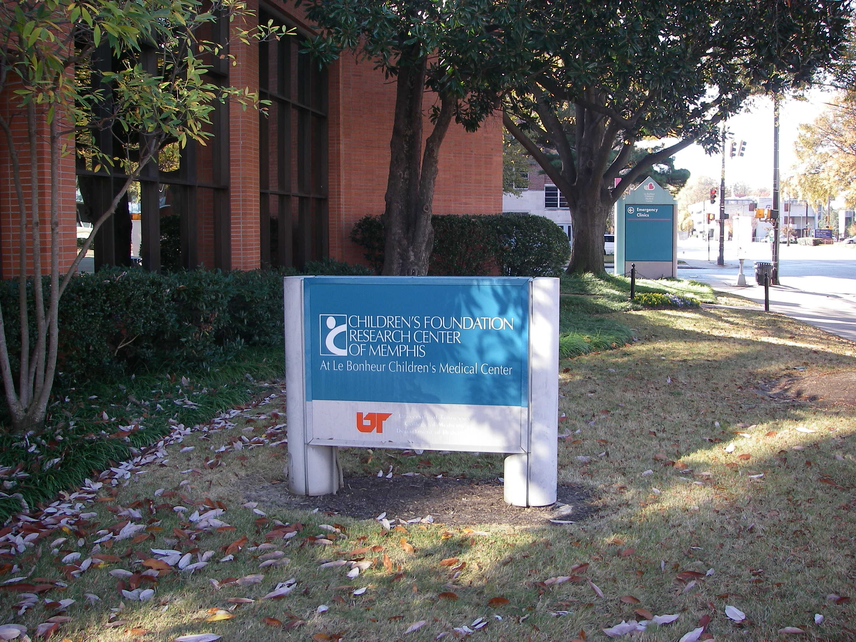 I personally took this pict.